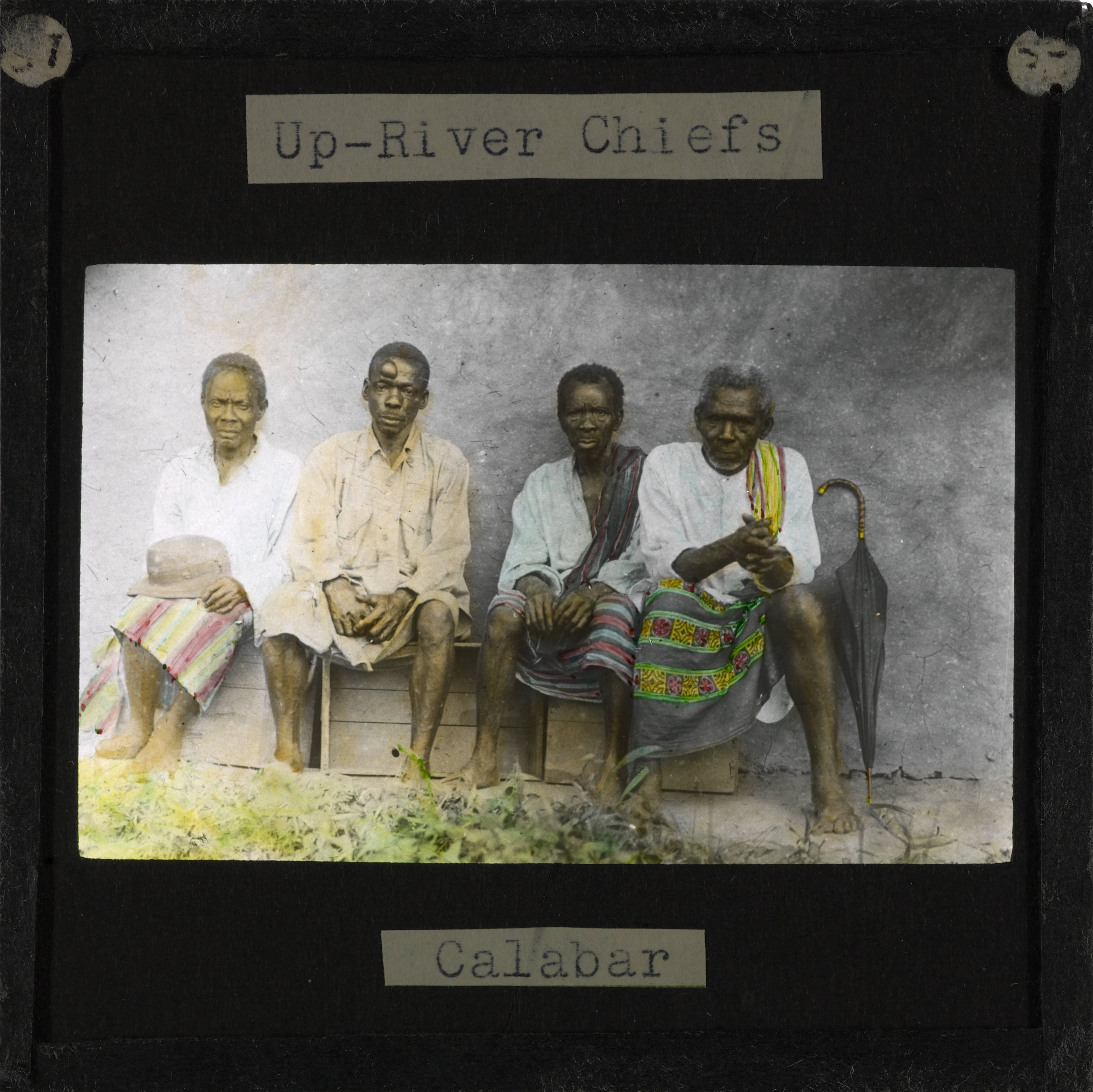 "Up-River Chiefs, Calabar", 19th century Group picture of four village chiefs visiting Okoyong. The four chiefs, all men, are sitting on a wooden box in front of a clay wall. To the right of the men a black umbrella rests against the wall. Mary Slessor, the Scottish Missionary, lived in Okoyong (located in later day Nigeria) for many years. Photographer: Unknown Filename: imp-cswc-GB-237-CSWC47-LS2-037.tif Coverage date: circa 1880 Part of collection: International Mission Photography Archive, ca.1860-ca.1960 Type: images Part of subcollection: Photographs from the Centre for the Study of World Christianity, University of Edinburgh, U.K., ca.1900-ca.1940s Repository name: Centre for the Study of World Christianity Archival file: impaunpub_Volume7/1311.url Repository address: The University of Edinburgh School of Divinity, New College, Mound Place, Edinburgh EH1 2LX, United Kingdom Geographic subject (country): Nigeria Format (aacr2): 1 lantern slide : 8 x 8 cm. Geographic subject (continent): Africa Rights: Contact the repository for details. Part of series: Mary Slessor LS2 Repository Subject (lcsh Keyword): Village communities; Religion Date created: circa 1880 Publisher (of the digital version): University of Southern California. Libraries Subject (aat genre): group portraits Format (aat): lantern slides Legacy record ID: impa-m68181 Access conditions: File: GB 237 CSWC47/LS2/37